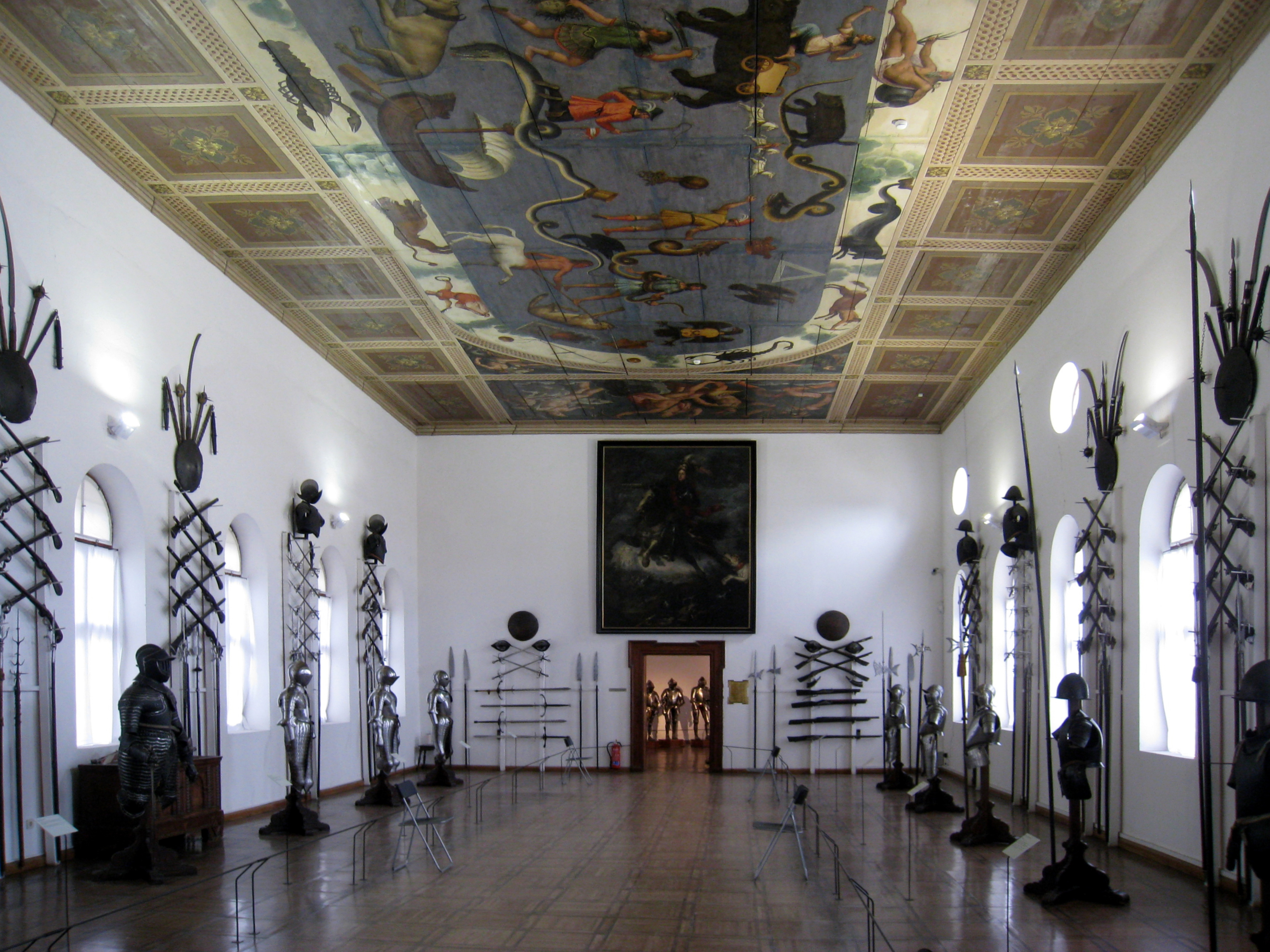 Schloss Ambras, Innsbruck, Austria. Armor collection.